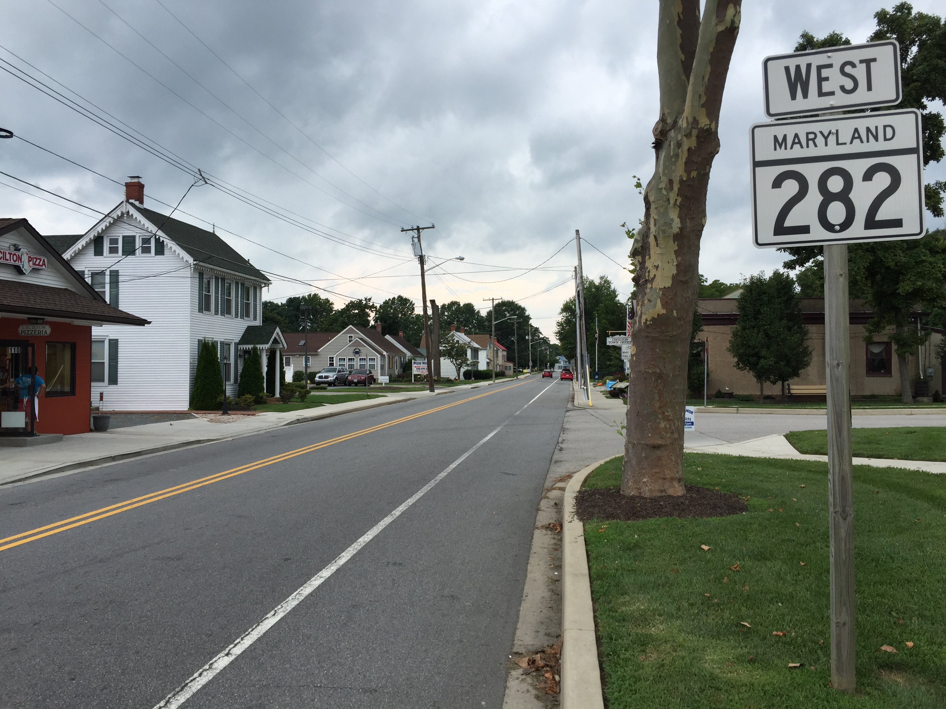 View west along Maryland State Route 282 (Main Street) at Maryland State Route 213 (Bohemia Avenue) in Cecilton, Cecil County, Maryland